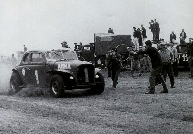 Juan Gálvez with his Ford coupe